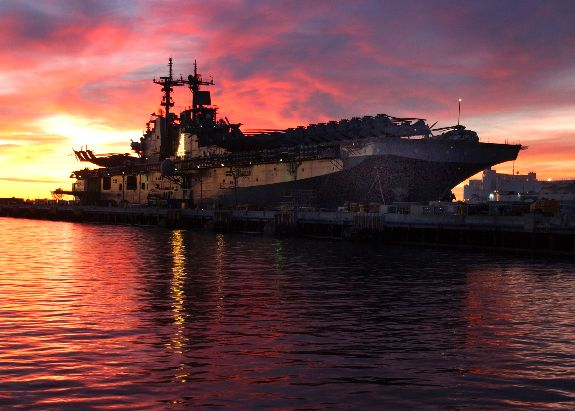 Catalog #: SHIPS01330 Ship Name : Boxer Hull #: LHD4 Country : USA Ship Type : Amphibious Assault Ship